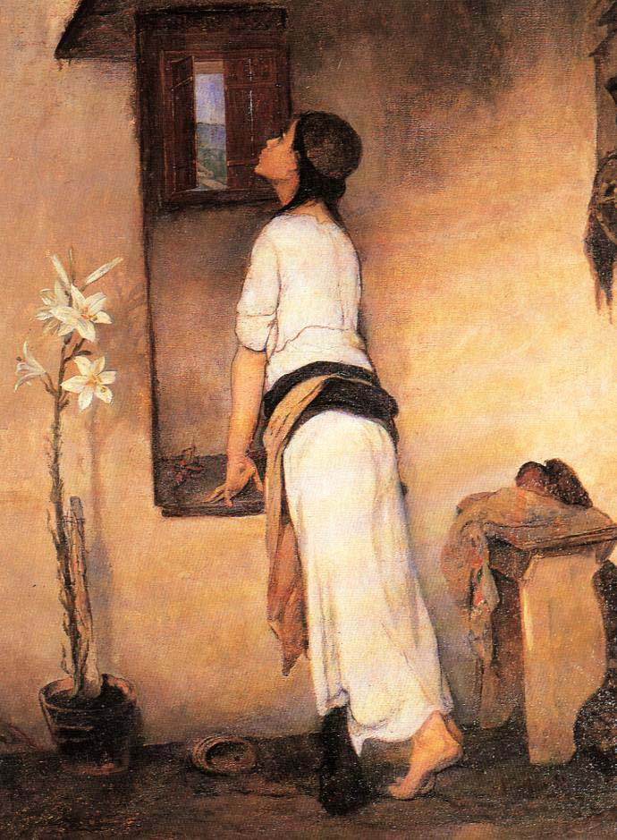 Nikiforos Lytras, The Waiting. Oil on canvas, 68x50 cm. National Gallery of Greece